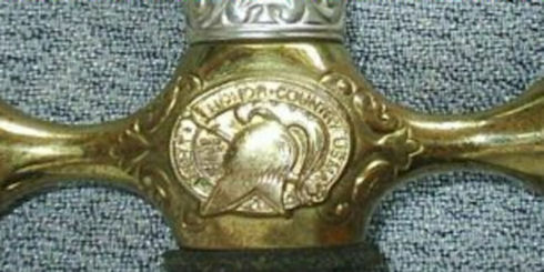 Athena Helmet is a trademark of U.S. M. A. Black Knights as is the verbiage U.S.M.A., Duty, Honor, County. Any use requires written approval from the Coltegiate Licensing Company